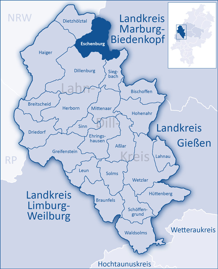 The map shows a district in the area of Lahn-Dill-Kreis